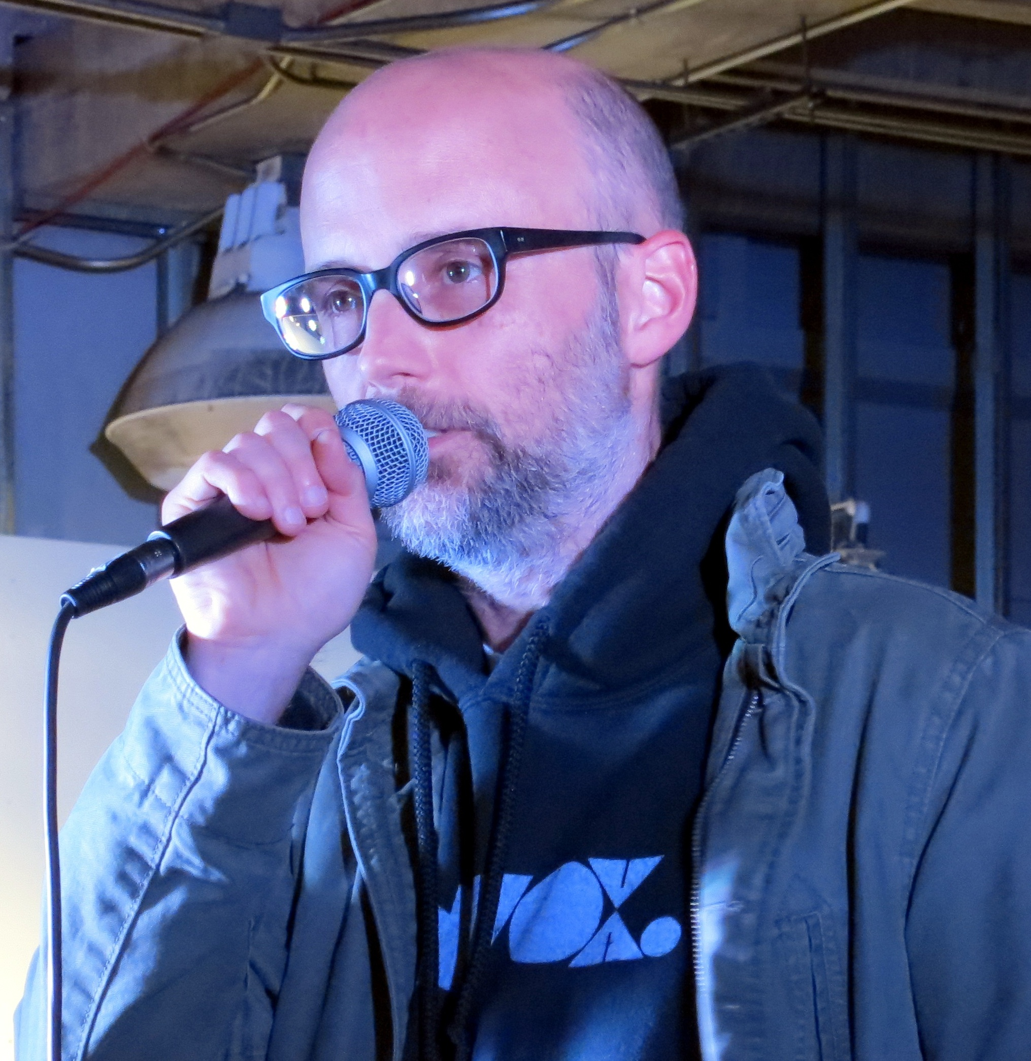 Moby at All in for the 99% at 400 S. La Brea, Los Angeles, CA.